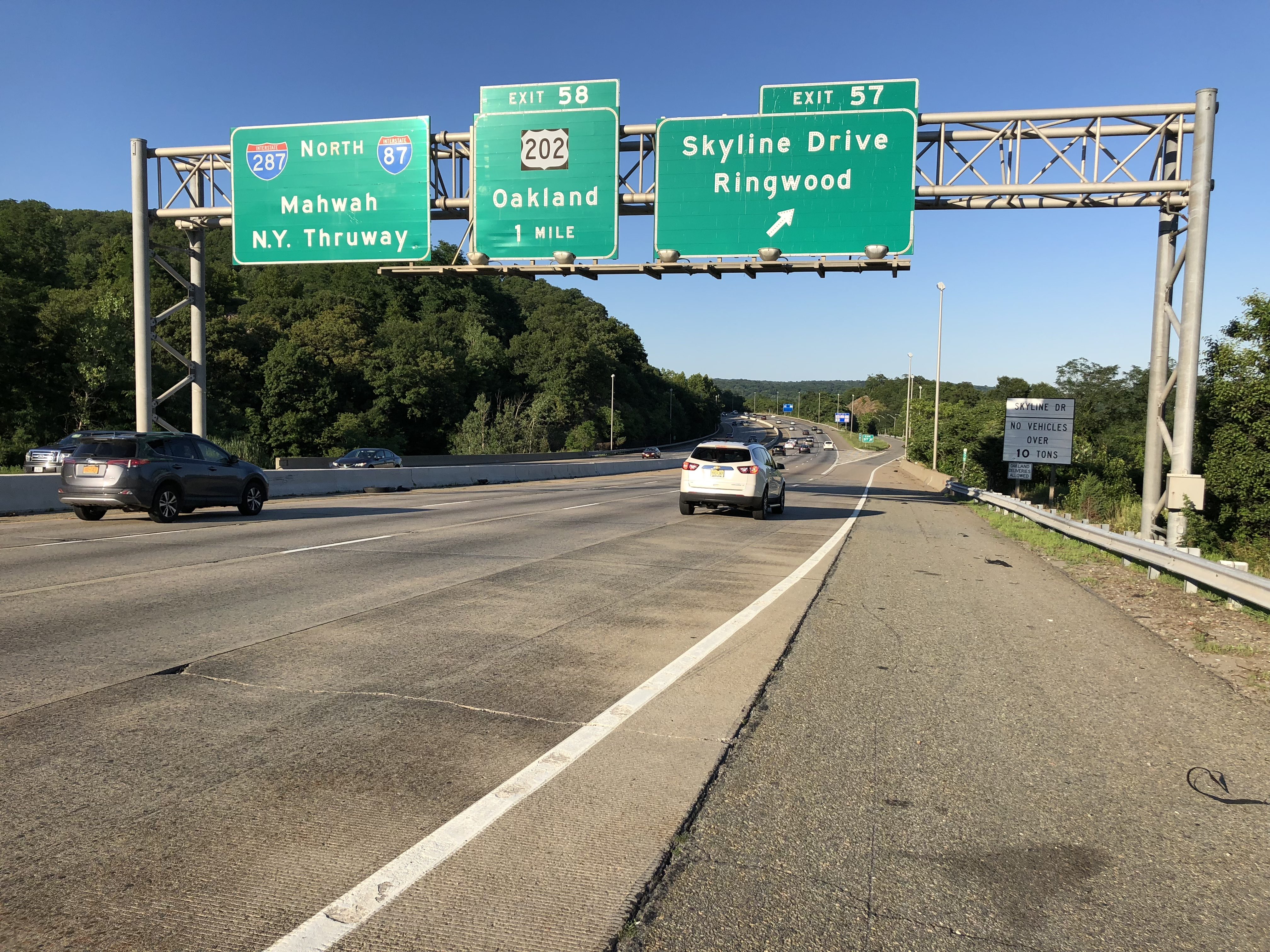 View north along Interstate 287 at Exit 57 (Skyline Drive, Ringwood) in Oakland, Bergen County, New Jersey